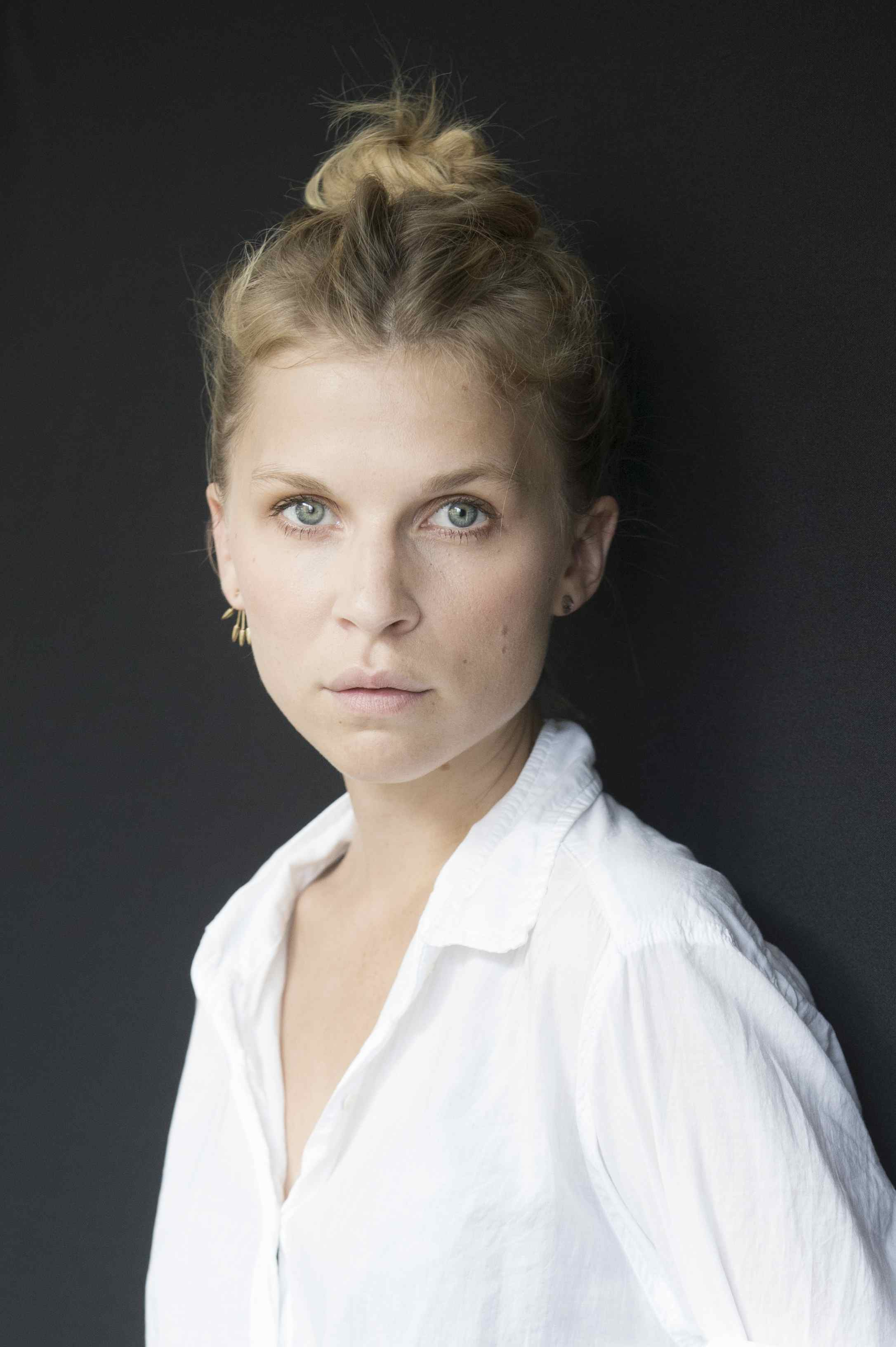 Clemence Poesy